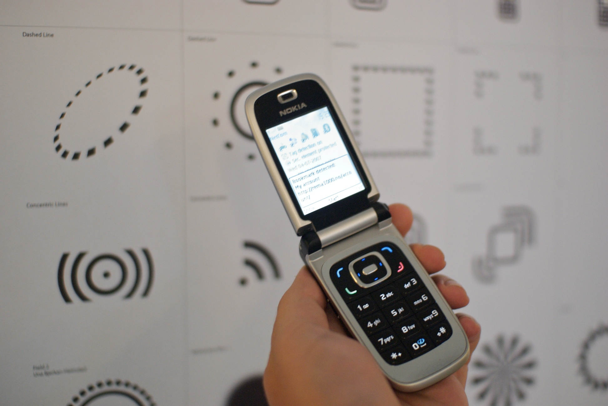 An NFC mobile phone (Nokia 6131 NFCmesso) interacting with a smart poster